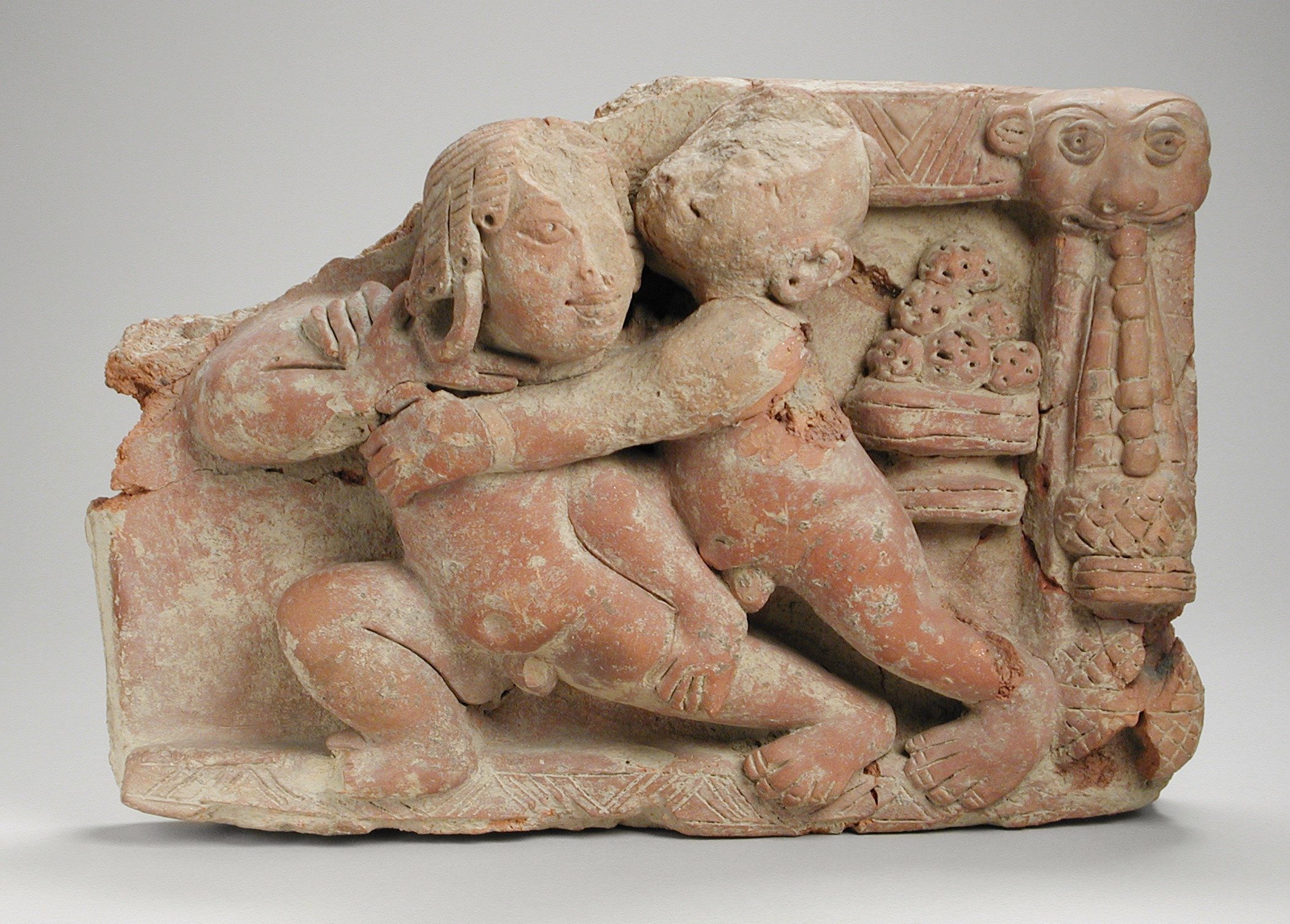 India, Uttar Pradesh, 5th century Sculpture Terracotta 10 x 14 1/2 x 4 1/2 in. (25.4 x 36.83 x 11.43 cm) Gift of Neil Kreitman (M.88.133.2) South and Southeast Asian Art